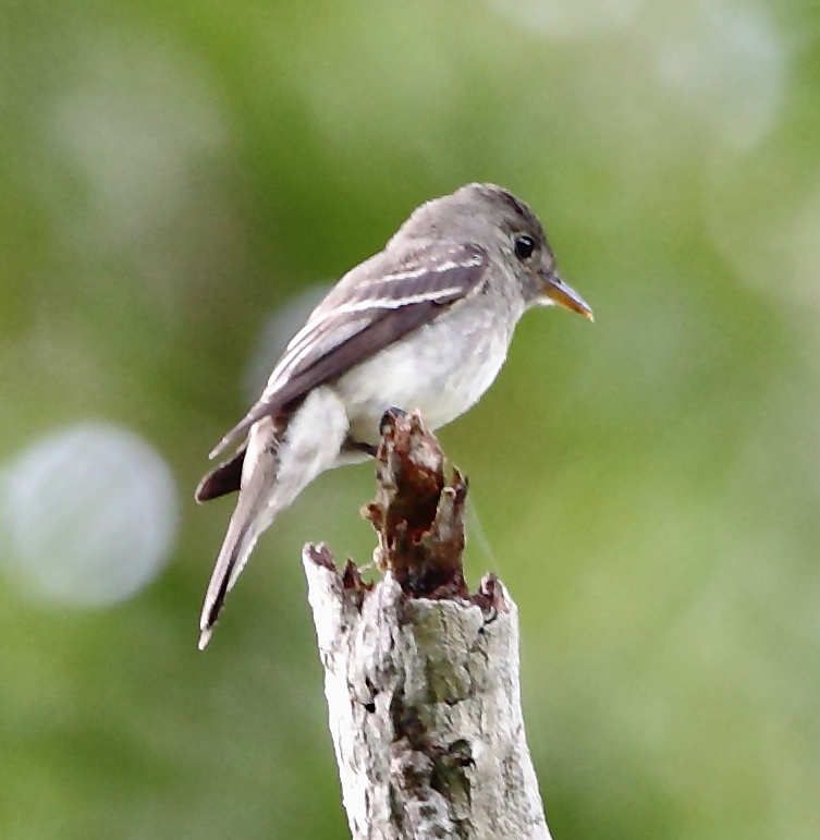 Eastern pewee at Apiacás - MT - Brazil